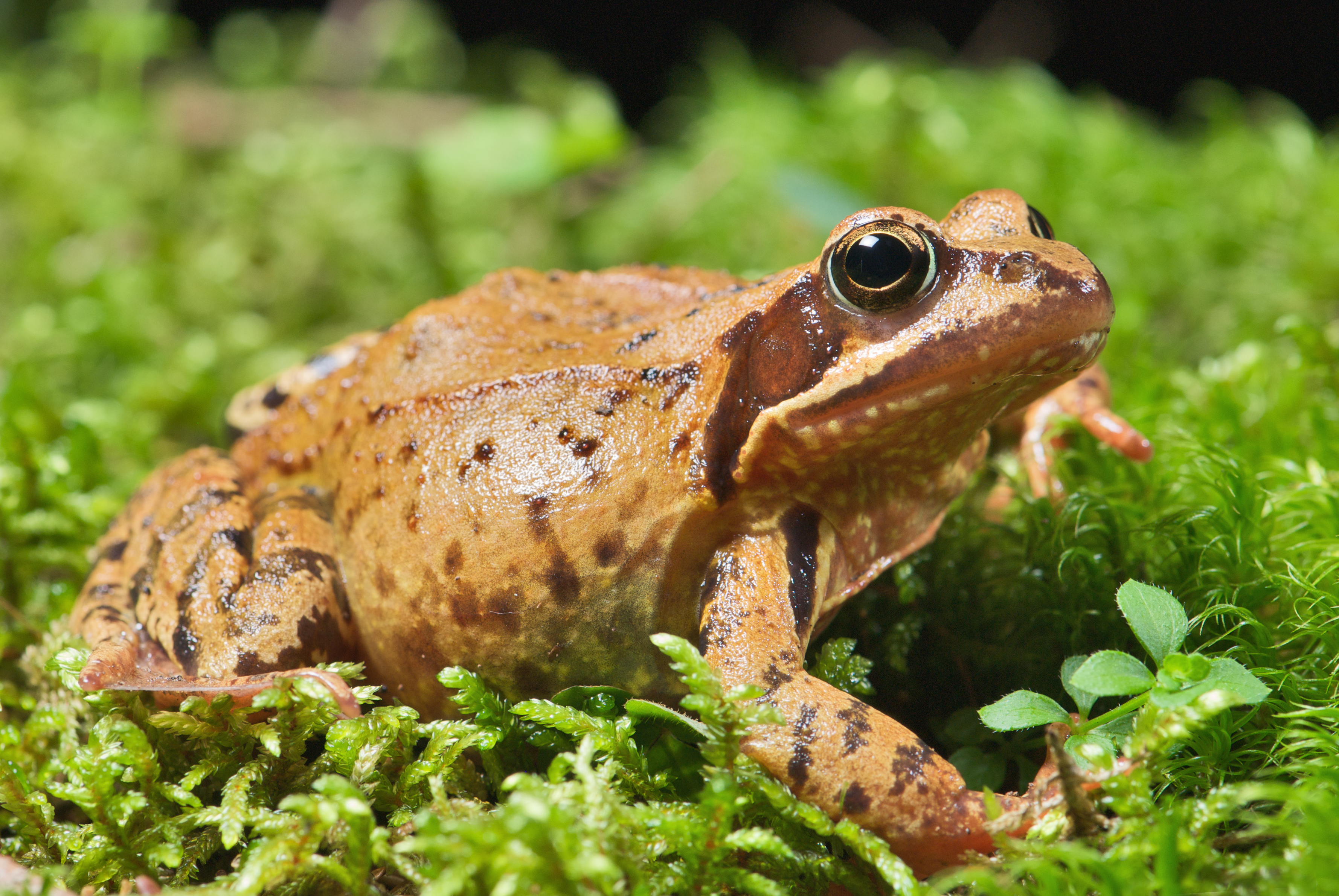 The Common Frog (Rana temporaria) can be found throughout much of Europe. The specimen in the picture is a fully-grown female with a length of about 90 mm – measured from head to abdomen.